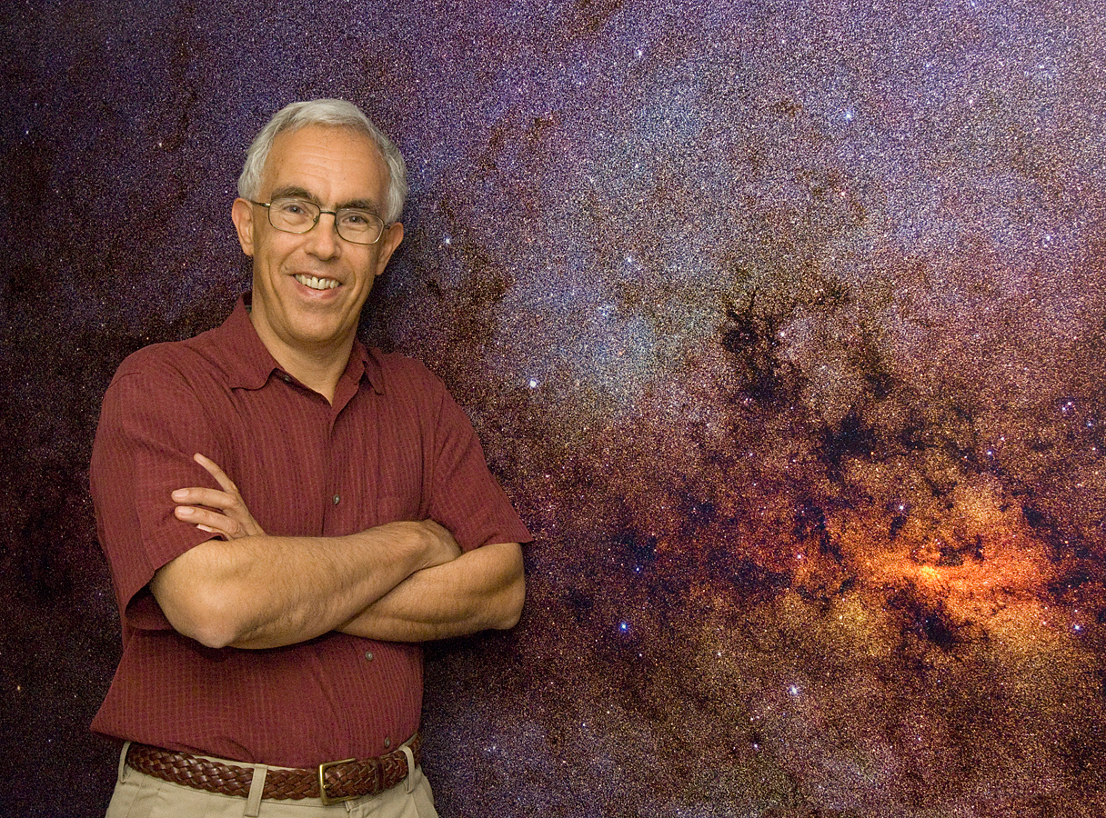 This is a headshot of scientist Thomas A. Prince.